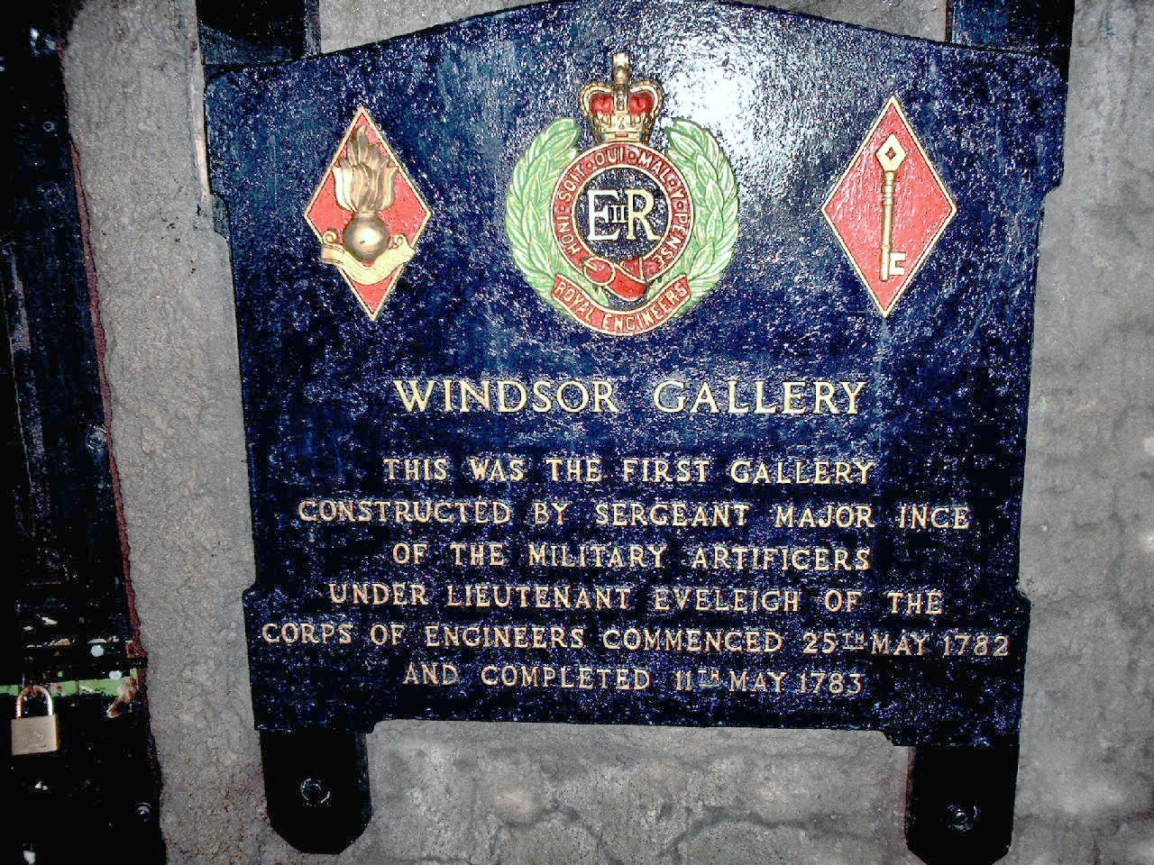 Memorial about the Great Siege Tunnels in Gribraltar.